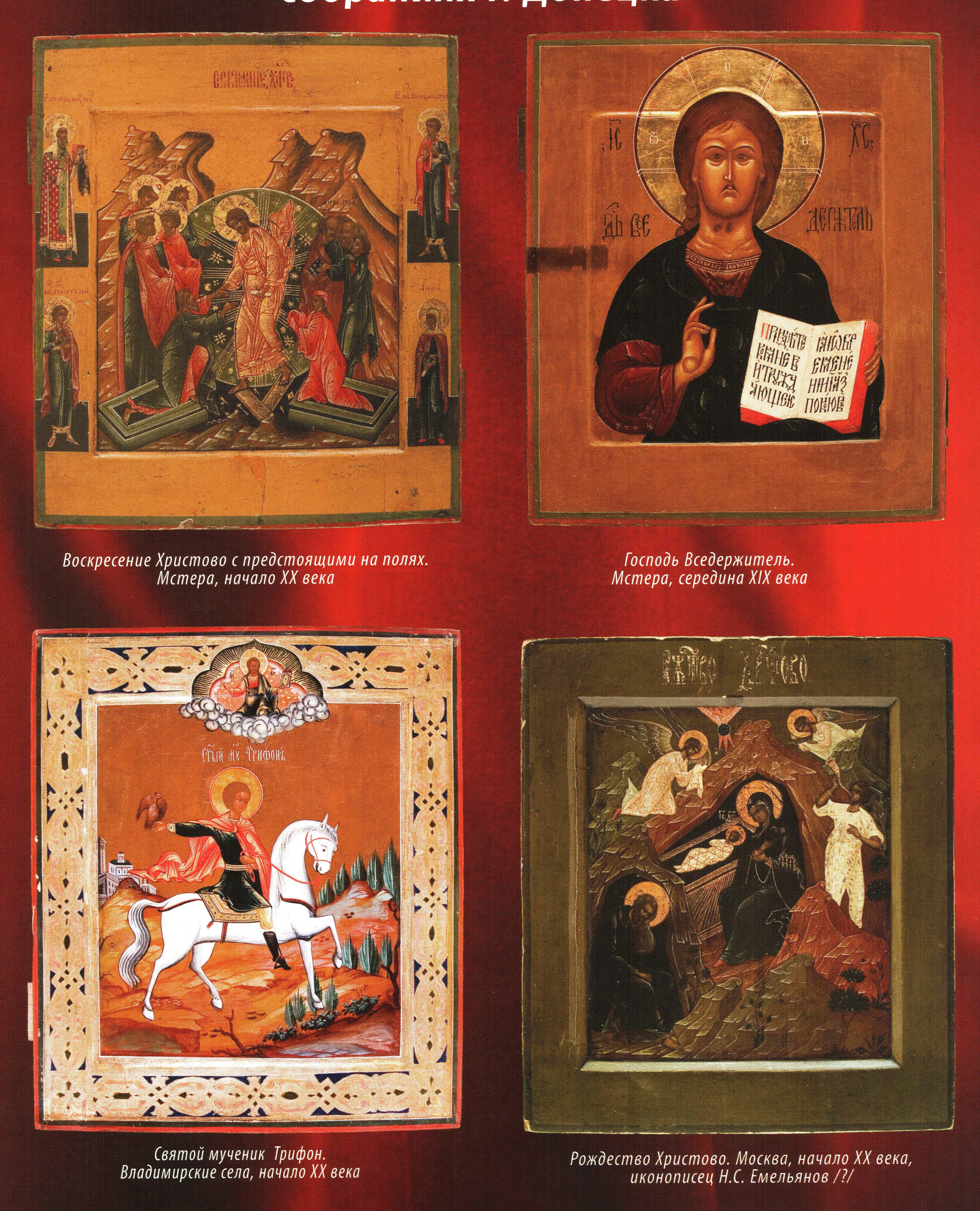 4 Russian Orthodox icons in Donetsk 19 - early 20 c. Донецкие православные иконы 19 - начала 20 века: Воскресение Христово. Мстера. Господь Вседержитель. Мстера. Святой мученик Трифон. Владимирские сёла. Воскресение Христово. Москва.